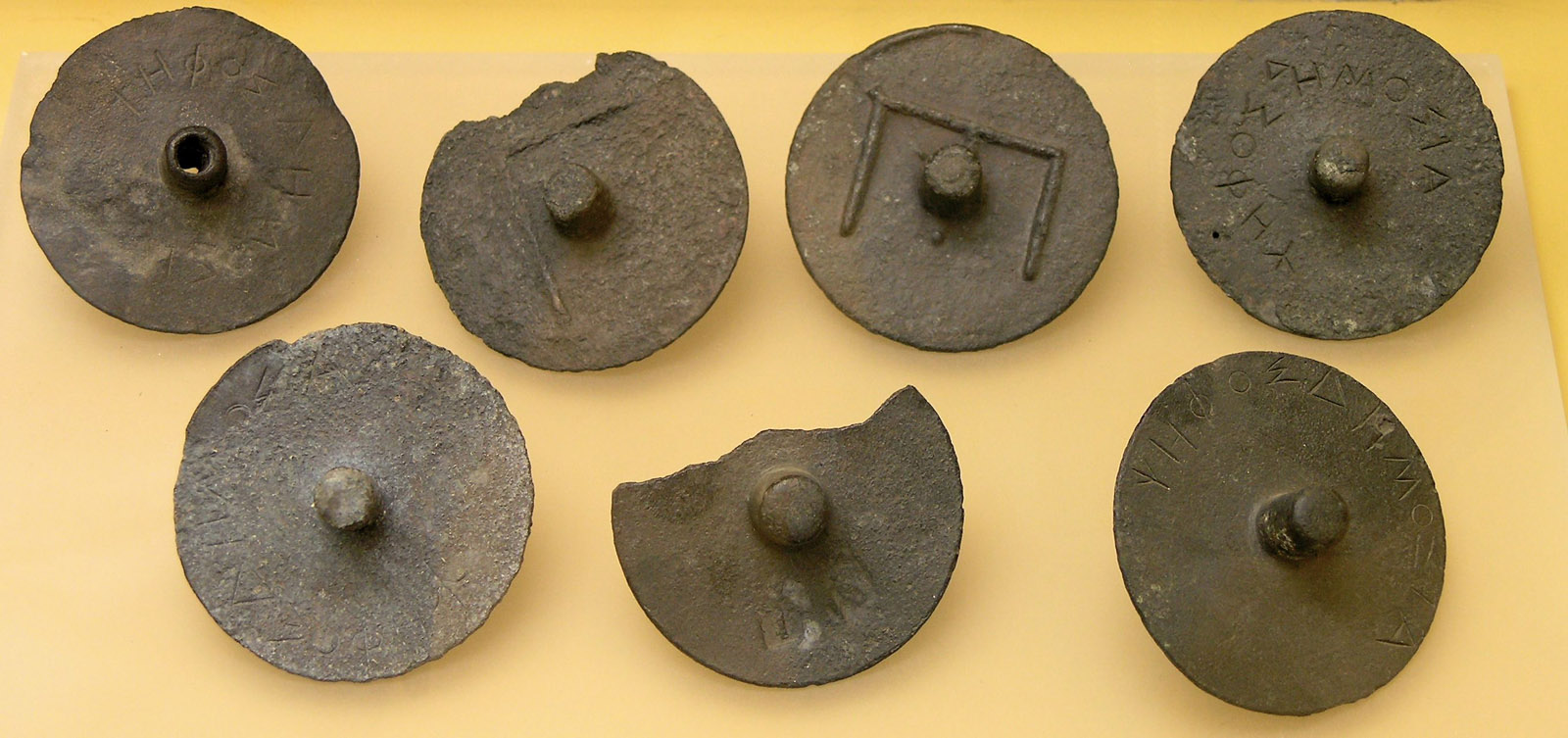 These disks were used to cast a juror's vote on a case. They would cover up the top when submitting their secret vote, which if closed meant innocent and open (left bottom) meant guilty, or there was a hole in the soul. Ca. 300 BC. Ancient Agora Museum in Athens.